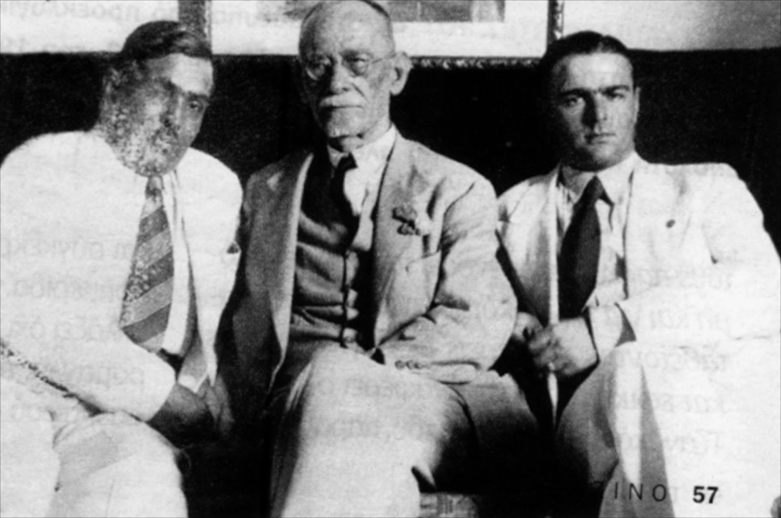 Athanasios Boukovalas, Athanasios Argyros and Georgios Karamanlis.